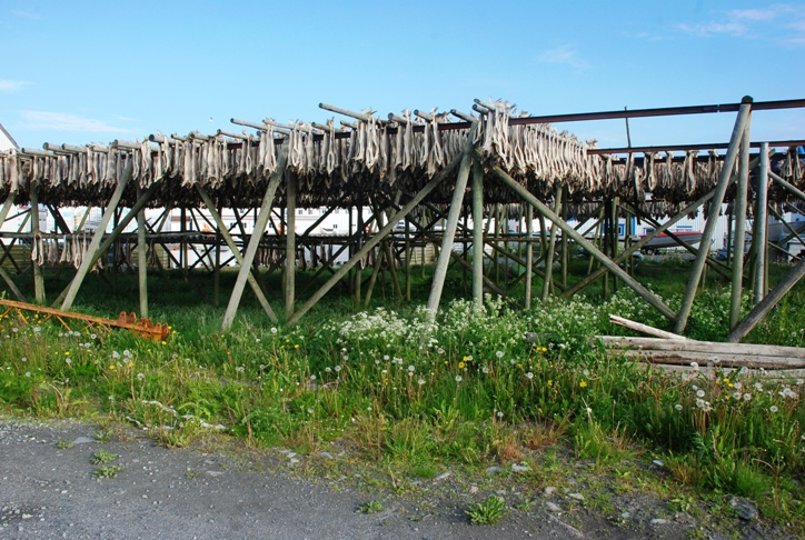 Drying fish on Røst, Norway.